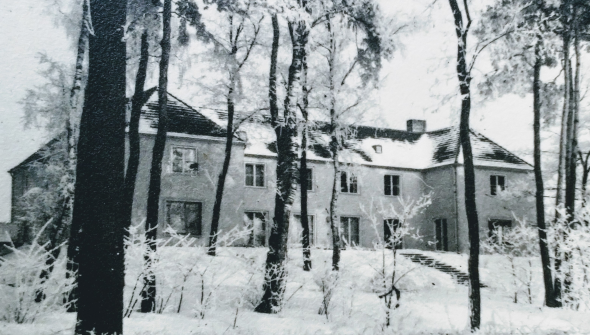 Landhaus Vogelsberg in Neusalz / Nowa Sol, Poland, was built in 1935 by the German architekt Fritz Schopohl for Albrecht von Treskow, member of the Board of Gruschwitz Textilwerke AG.